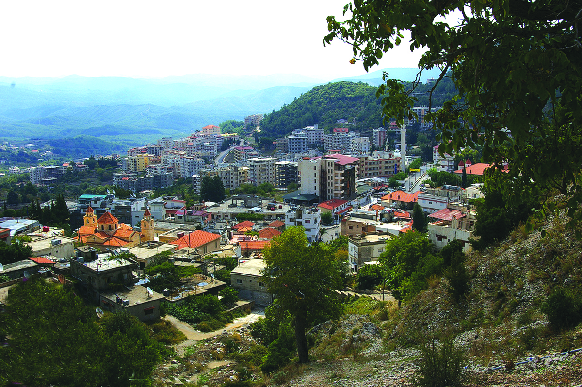 Kesab general view in 2010, Syria.